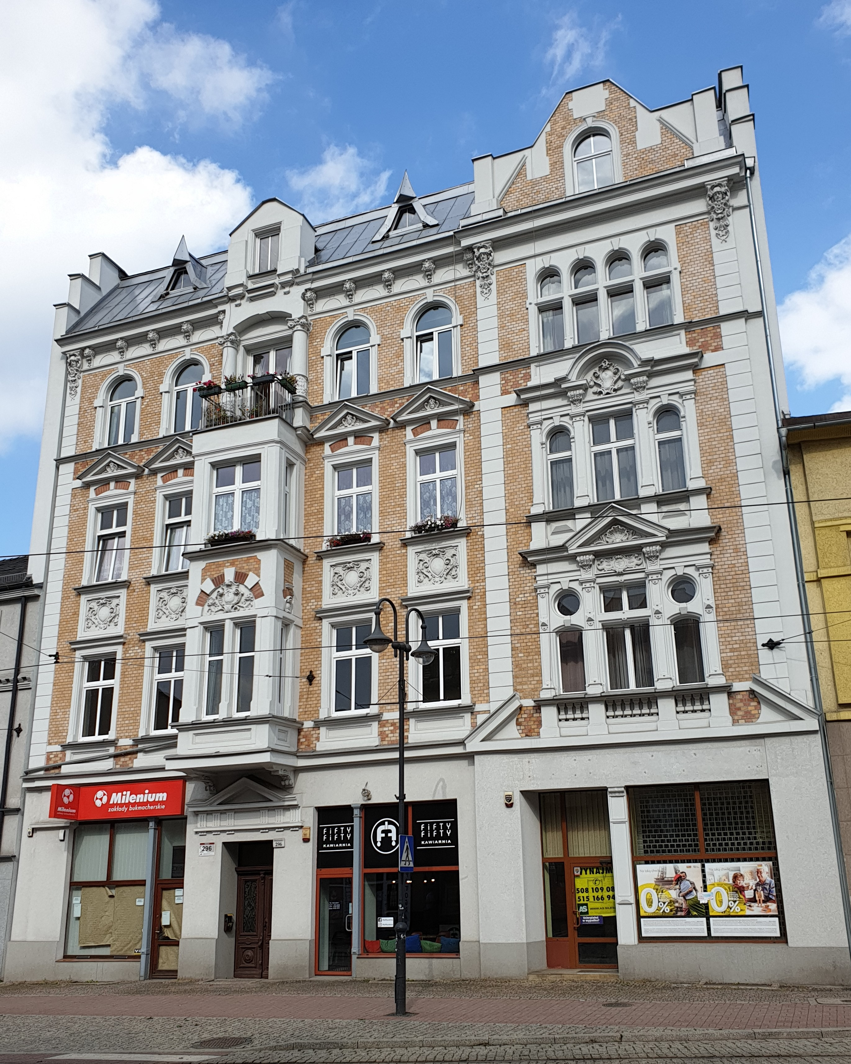 Wolności 296 Building, Zabrze, Poland, September 2018